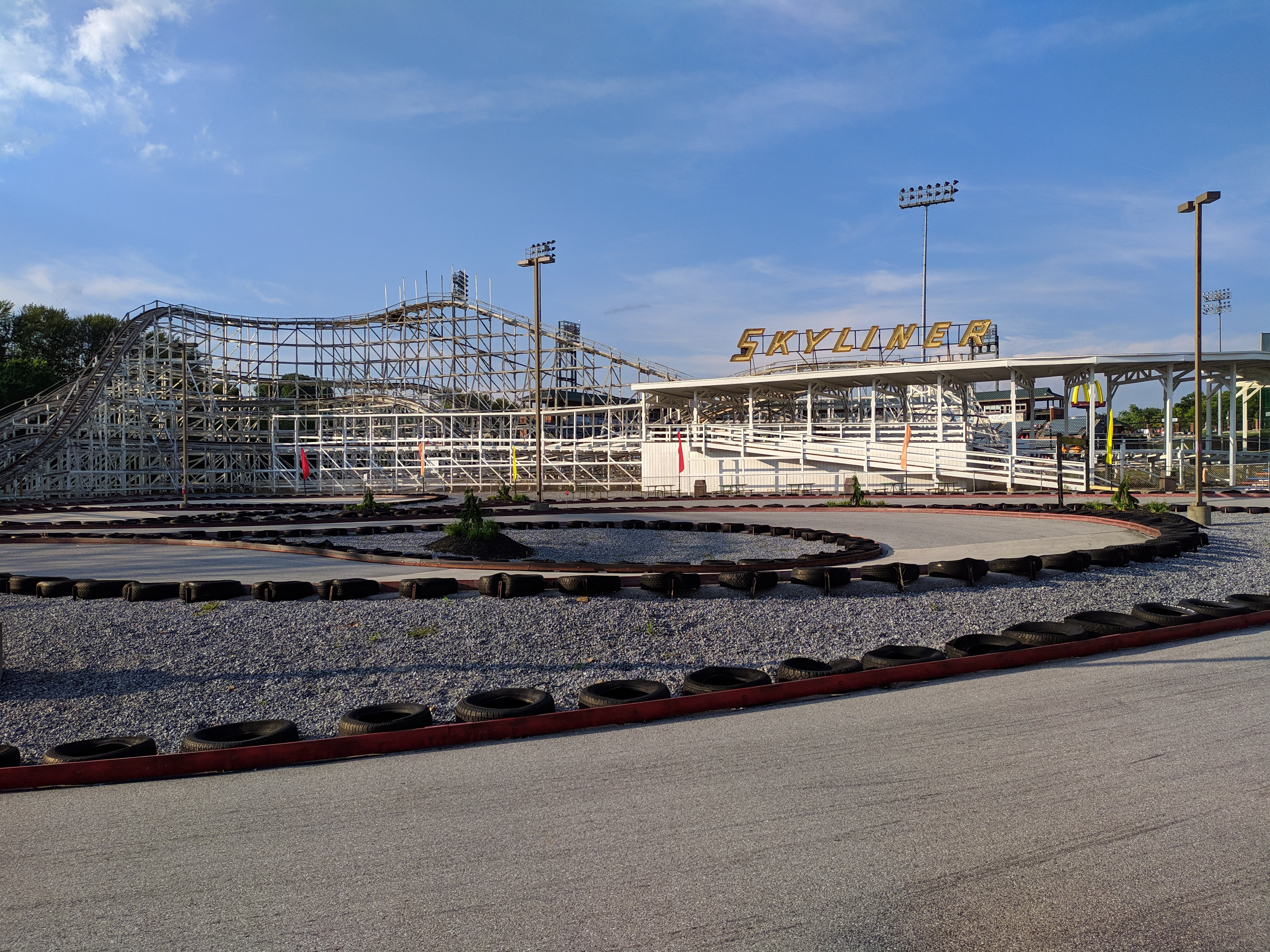 The Skyliner rollercoaster at Lakemont Park.